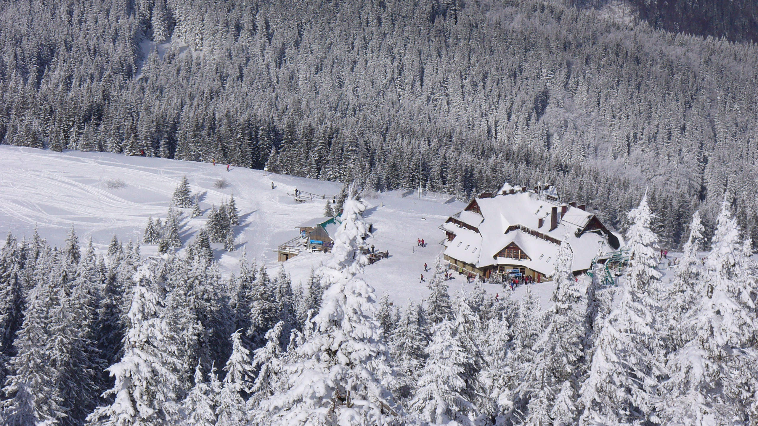 Hala Miziowa hostel (Żywiec Beskids, Poland).